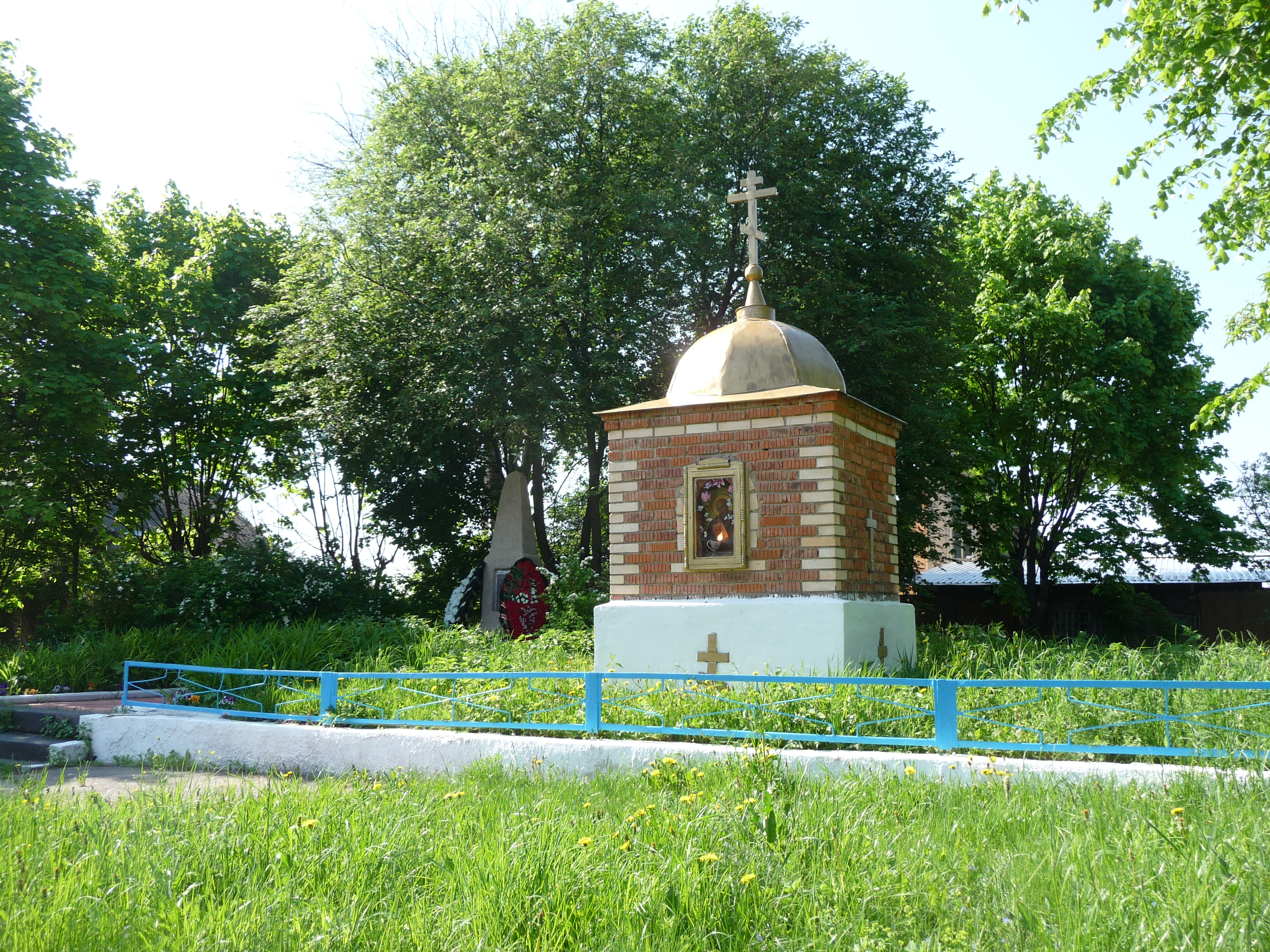 In the village of Mizinovo, Shchyolkovsky District, Moscow Oblast, Russia